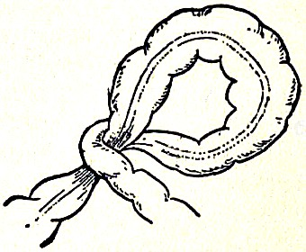 Medical (pathology) illustration of an intestinal obstruction: volvulus.